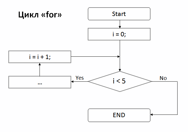 Block diagram of the cycle "For"